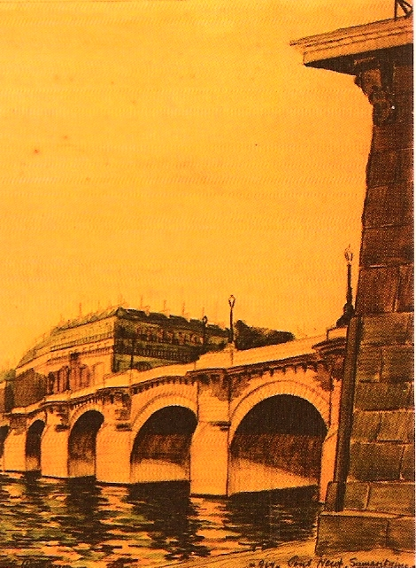 This work depicts the Pont Neuf bridge in Paris. Executed by Jenő Pozsonyi (1885-1936). watercolour and drawing on paper 35 x 25,7 cm